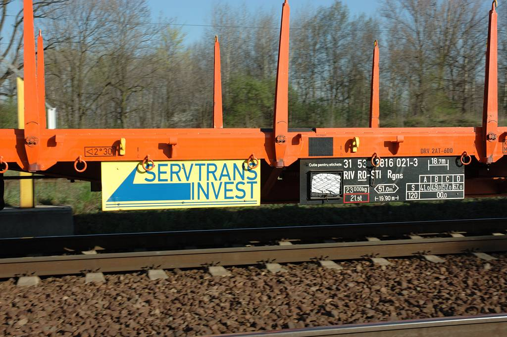 The logo of Rumanian railway operator Servtrans Invest on platform wagon of the class Rgns